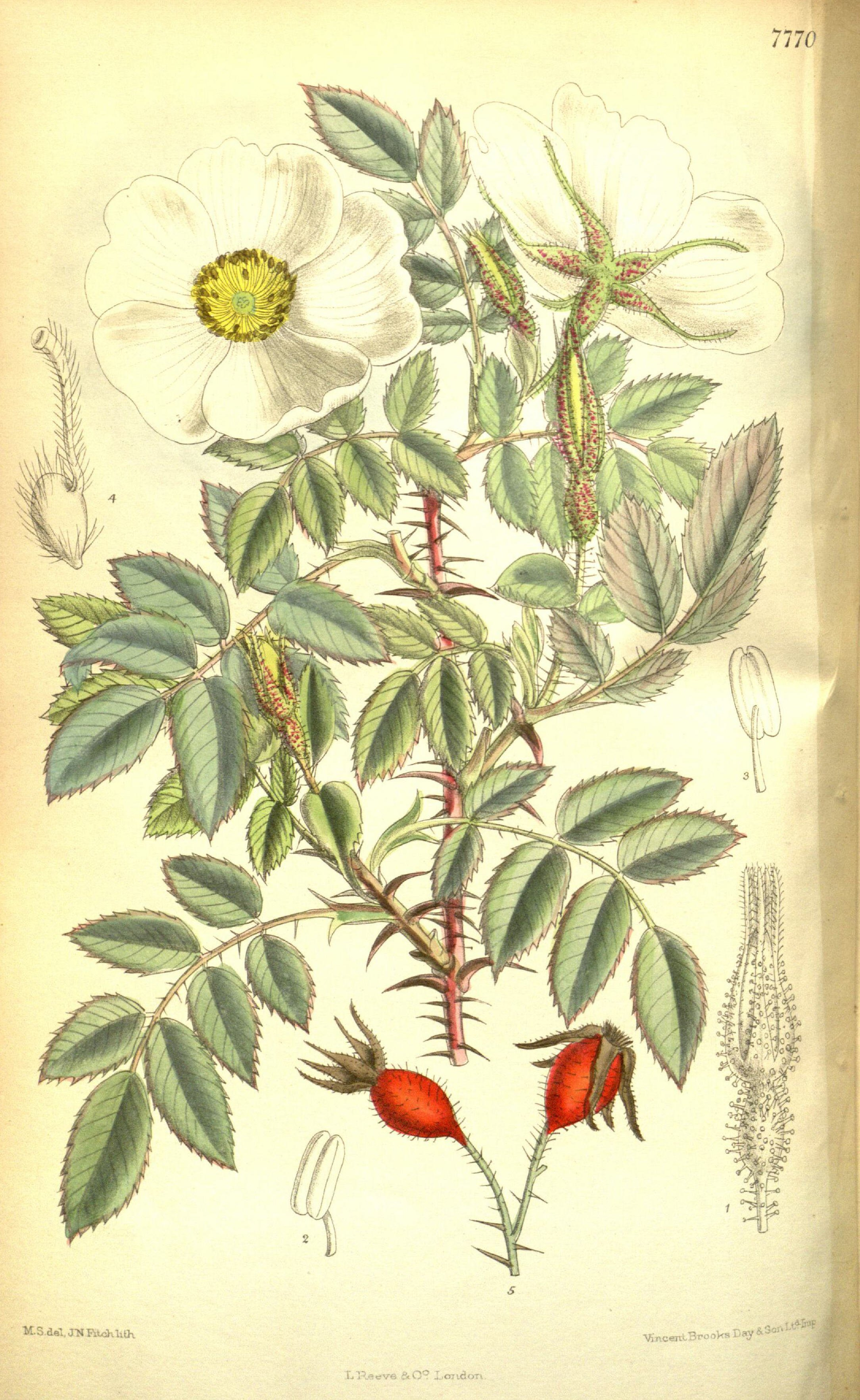 Rosa fedtschenkoana